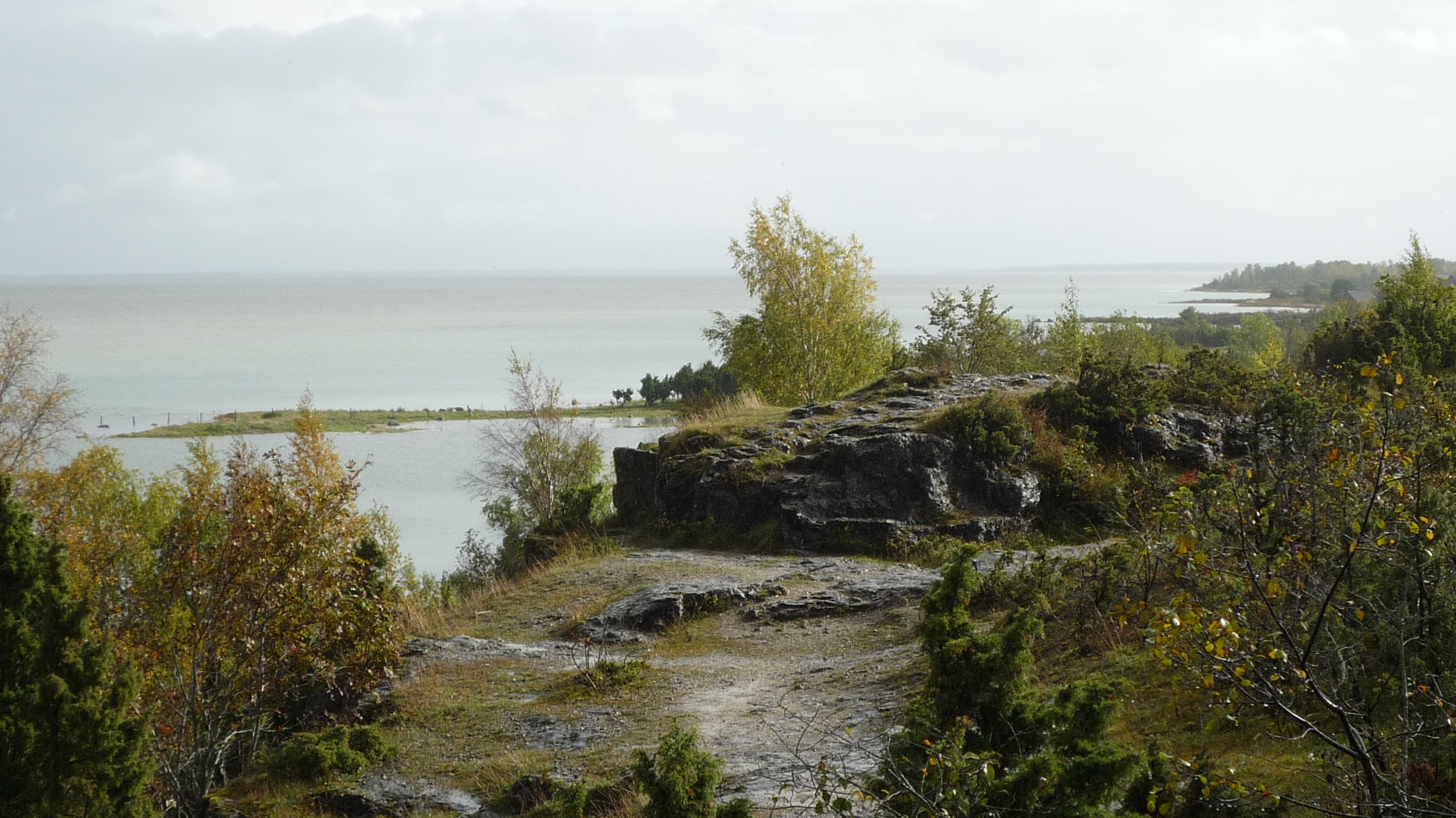 Üügu bluff. View to east. Kallaste village, Muhu parish, Saare county, Estonia.